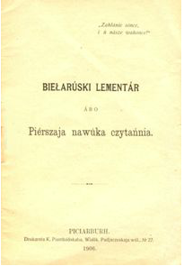 Lemantar